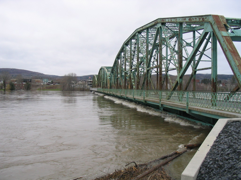 The international bridge between Fort Kent Maine and Clair New Brunswick during a flood.